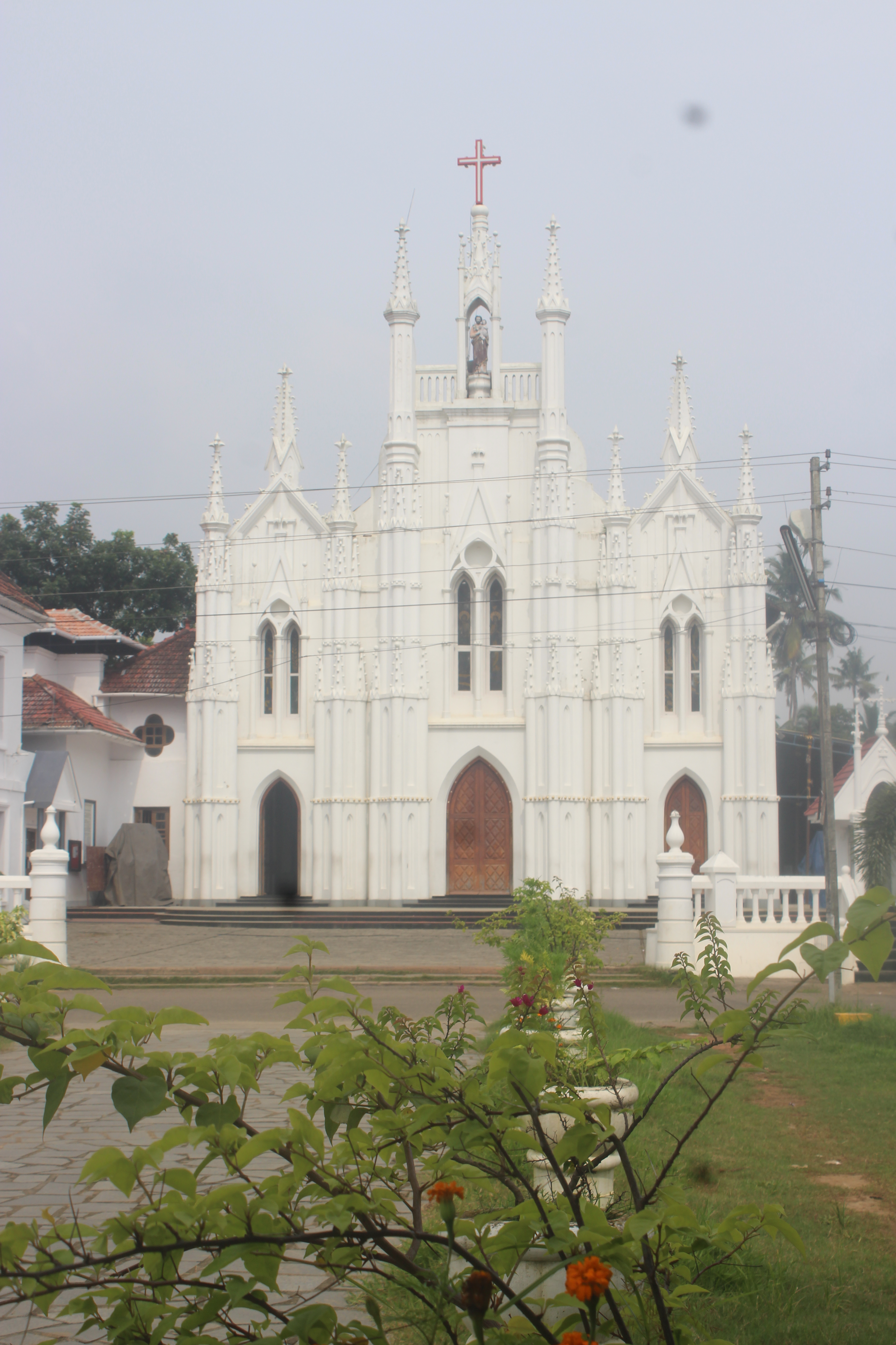 Varapuzha Church (Former Cathedral), Kochi City of Kerala state, India